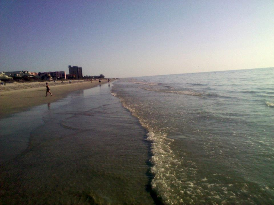 Nice calm day at Indian Rocks Beach FL in March 2013